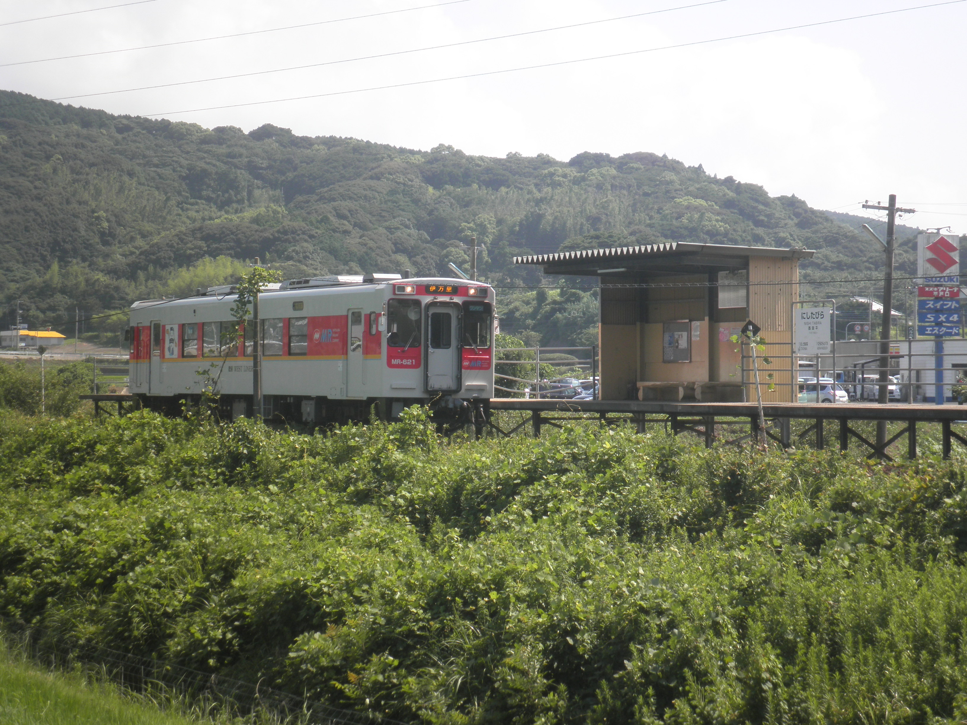 Matsuura Railway Nishi-Tabira Station in Hirado City, Nagasaki Prefecture, Japan